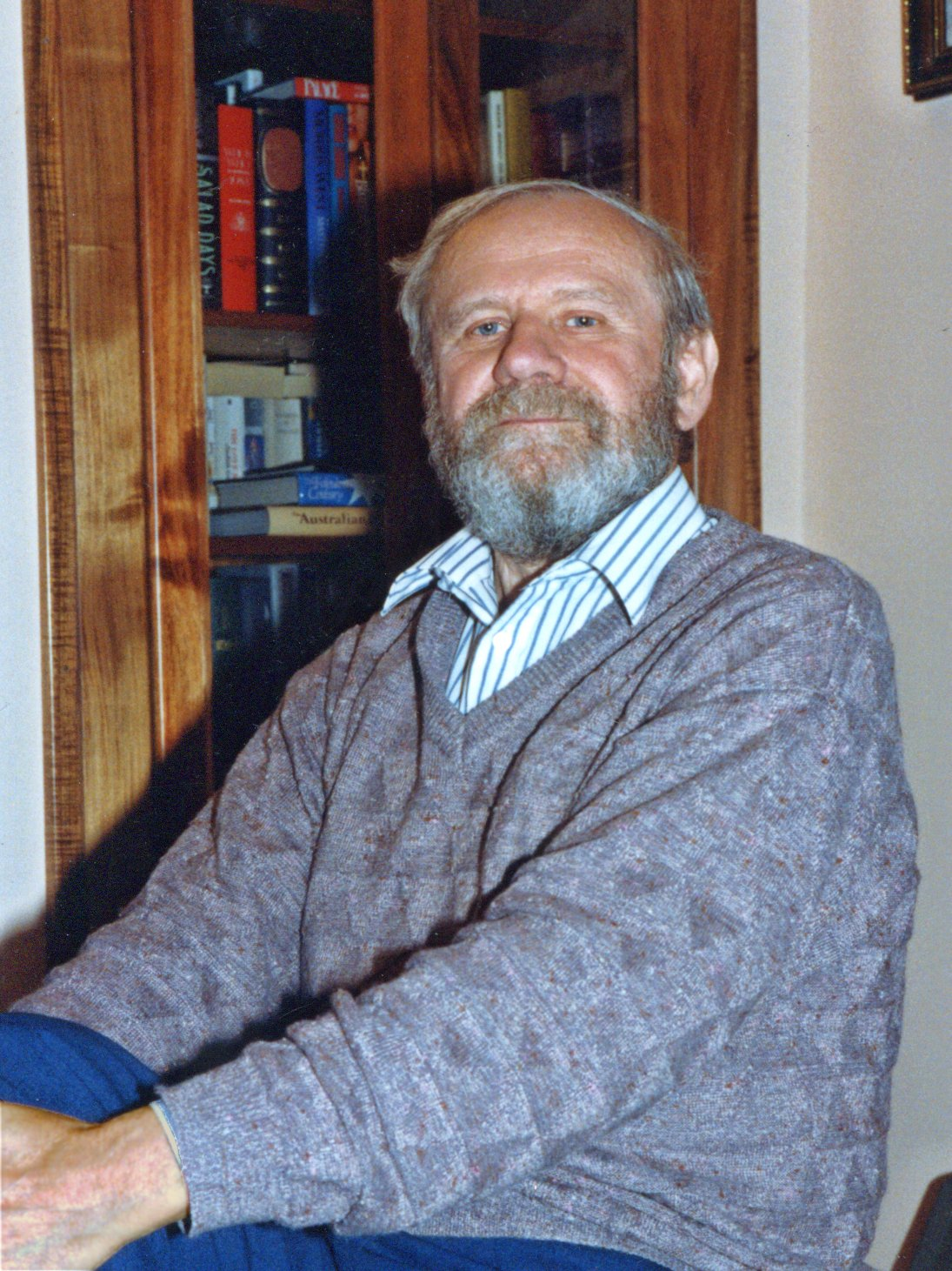 Photo of Leonid Denysenko, Ukrainian-born graphic artist living in Australia. Photo taken by family member at artist's home in Sydney.